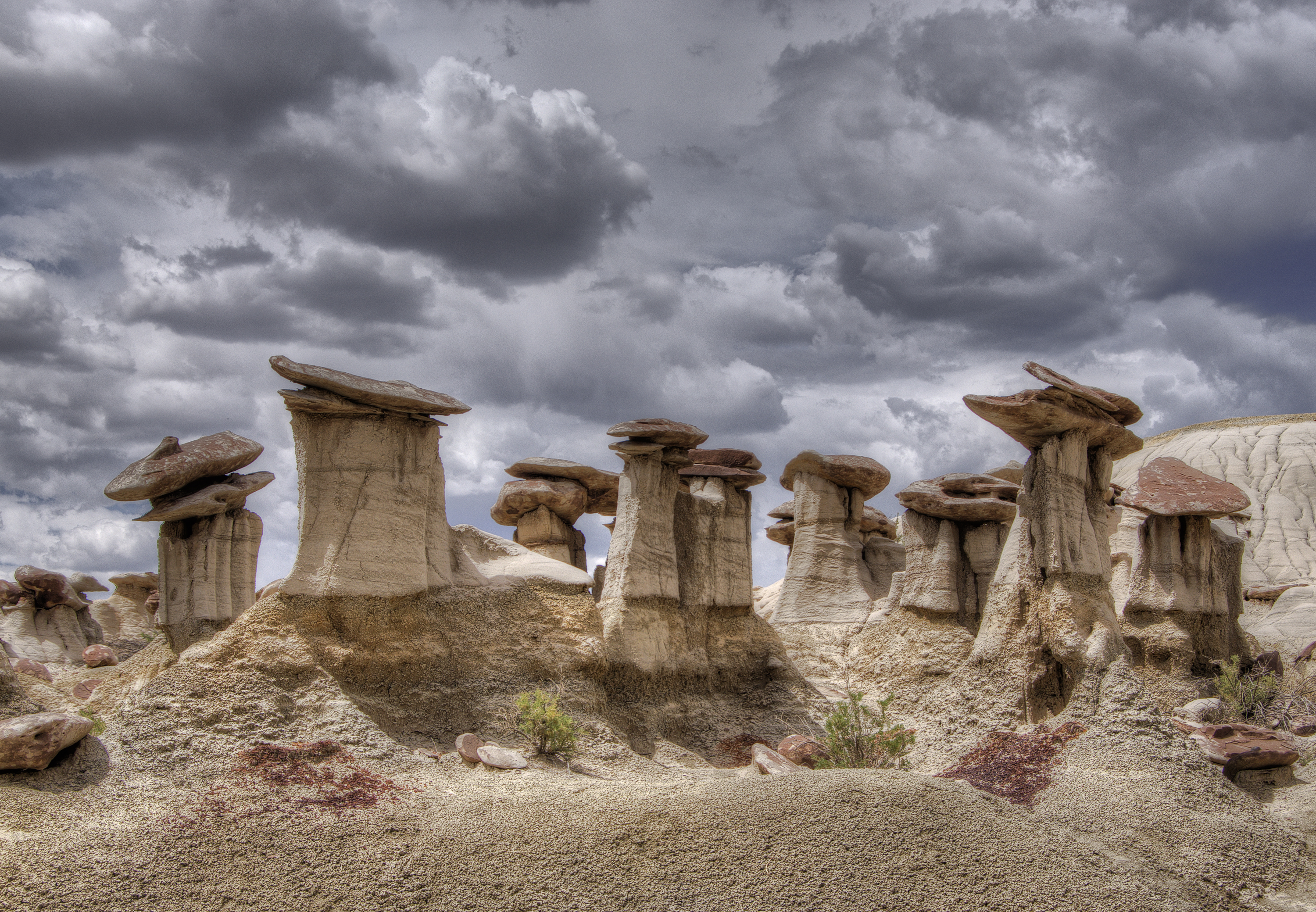 Hoodoos at Ah-Shi-Sle-Pah Wilderness Area. Rock formations in northwestern New Mexico. "Lots of hoodoos there."